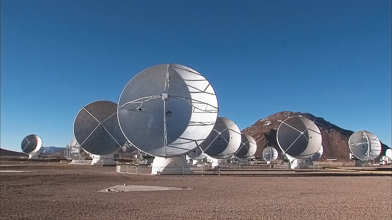 A new video compilation of freshly filmed footage of the Atacama Large Millimeter/submillimeter Array (ALMA) is now available. Under construction on the Chajnantor Plateau in the Chilean Andes, ALMA is a revolutionary observatory, designed to study some of the coldest and most distant objects in the Universe. When construction is completed in 2013, ALMA will have a total of 66 state-of-the-art antennas, but the telescope is already making scientific observations with a partial array of antennas. The footage, filmed in October 2012, includes the spectacular synchronised movements of the antennas at the Array Operations Site (AOS), 5000 metres above sea level. There are also several scenes of engineers at work in the AOS Technical Building, for example working on the ALMA correlator, as well as at the Operations Support Facility (OSF), at an altitude of 2900 metres. Additional footage of the OSF includes astronomers operating the telescope. Stunning sunsets and footage of the landscape around Chajnantor and the OSF — including timelapses — are also included in the compilation. ALMA is an international astronomy facility, supported by Europe, North America and East Asia in cooperation with the Republic of Chile. ESO is the European partner in ALMA.